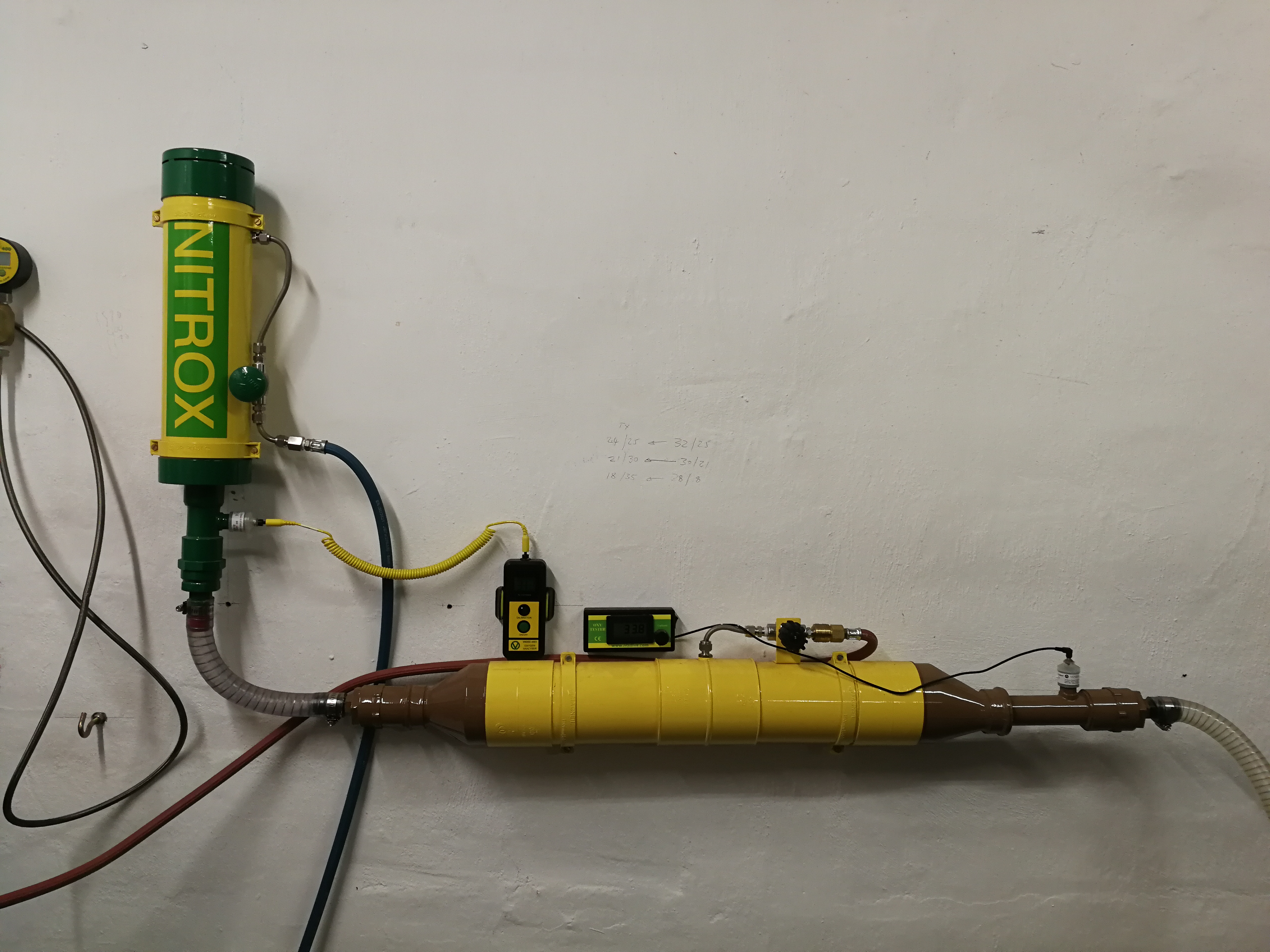 Nitrox and trimix blending tubes on high pressure breathing gas compressor intake with dedicated oxygen analysers measuring the output partial pressure. The helium fraction can be calculated from these two readings.